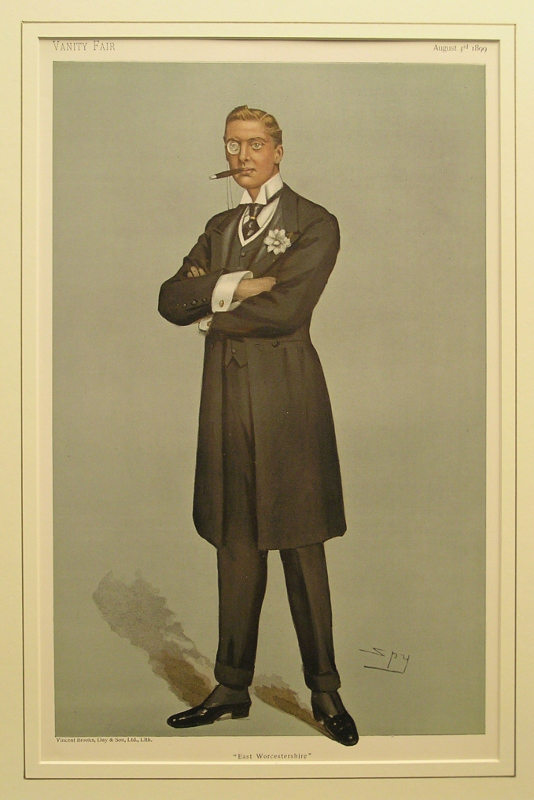 Statesmen No.711: Caricature of Mr A Chamberlain MP. Caption reads: "East Worcestershire"